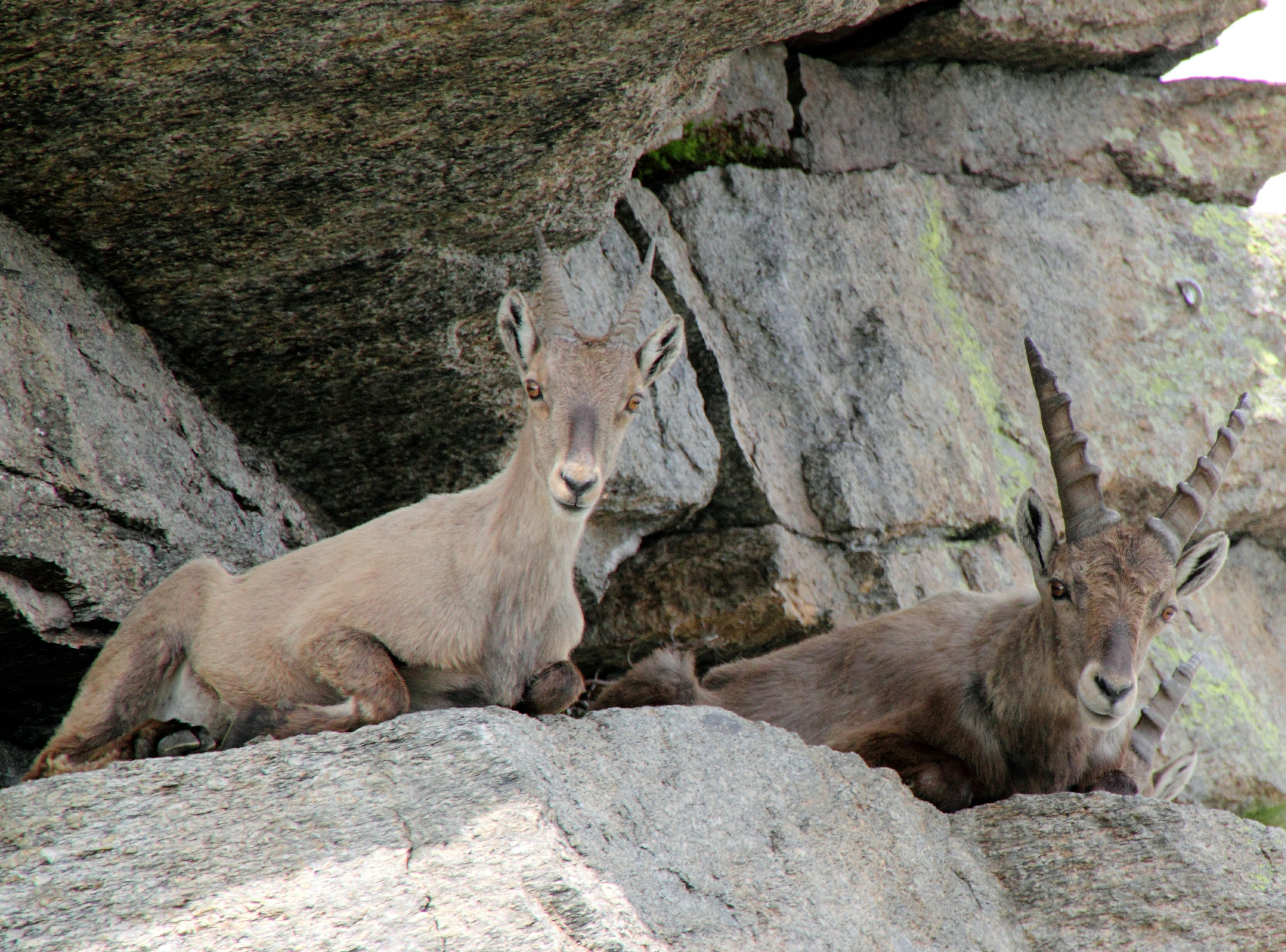 I took this one near the Rifugio Daviso in the Val Grande (Valli di Lanzo)